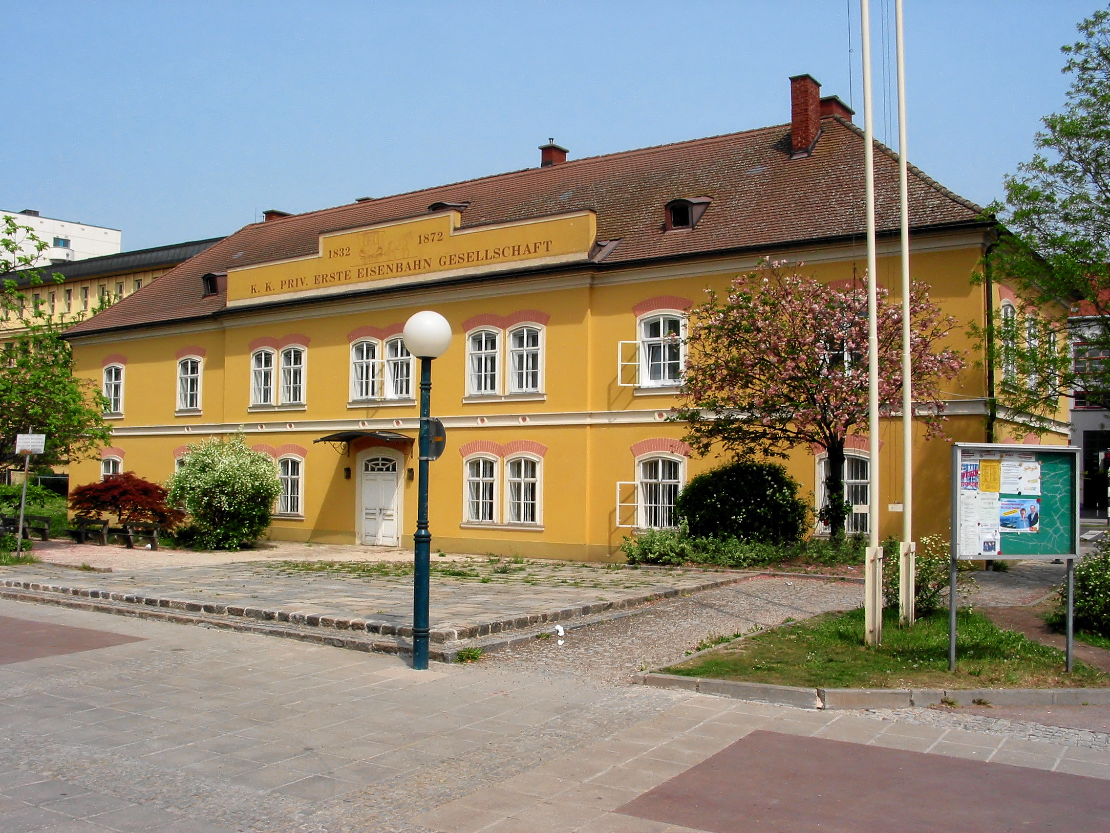 Former “Südbahnhof” (southern station) Linz of the horse-drawn railway Budweis–Linz–Gmunden.